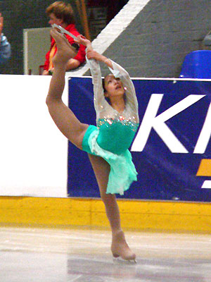 Rumi Suizu during her short program at the 2006 Junior Grand Prix event in The Hague, Netherlands